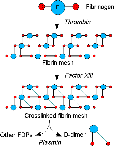 D-dimers drawn by User:Jfdwolff in ; File:D-dimer production.pdf